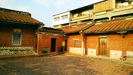 在夕陽下換的